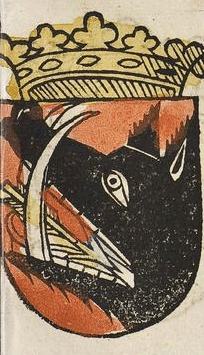 Serbian coat of arms, later version of the Chronicle of the Council of Constance, dated 1483.